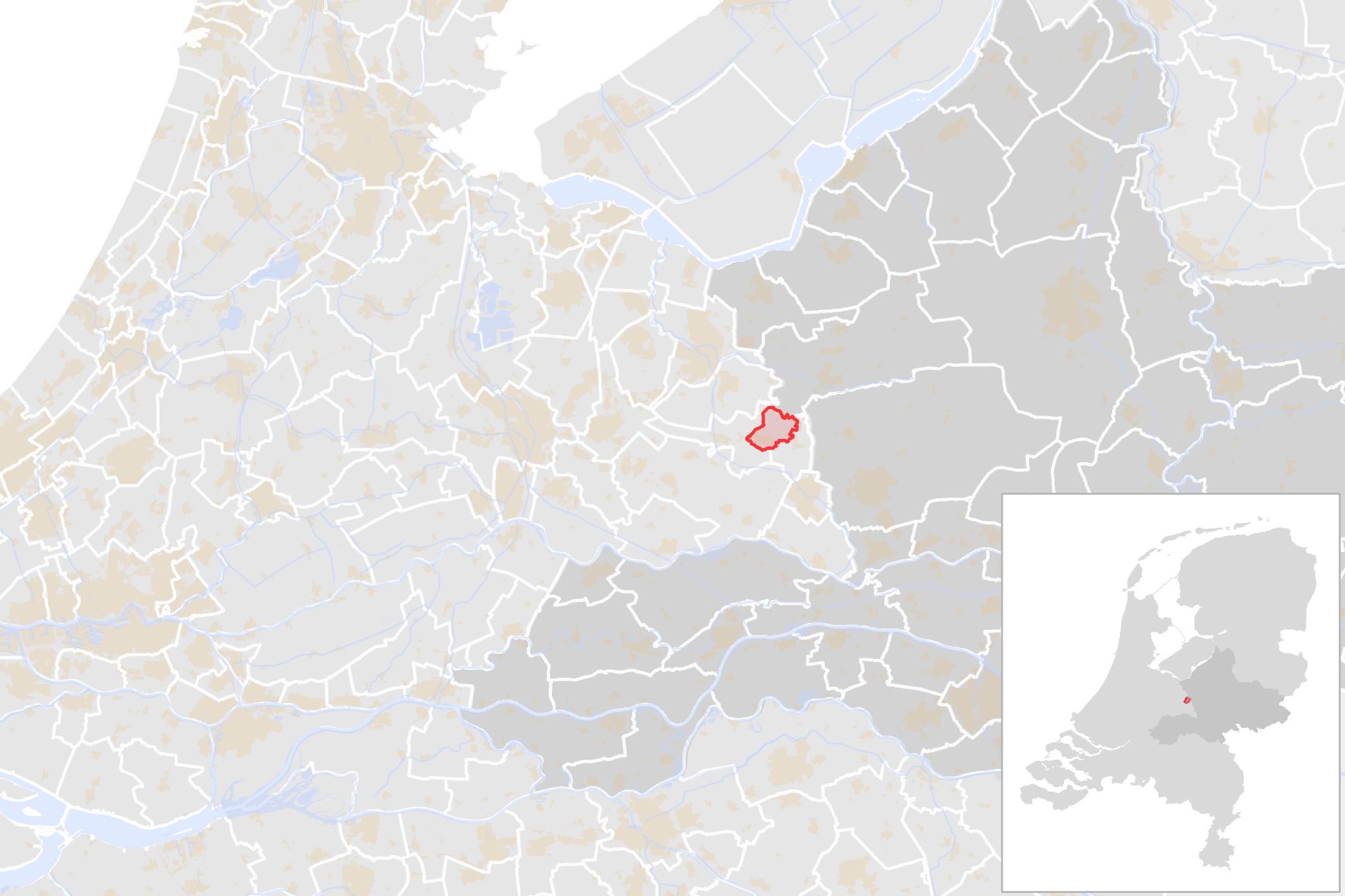 Locator map showing municipality boundary of one of the 390 Dutch municipalities (as of 2016)